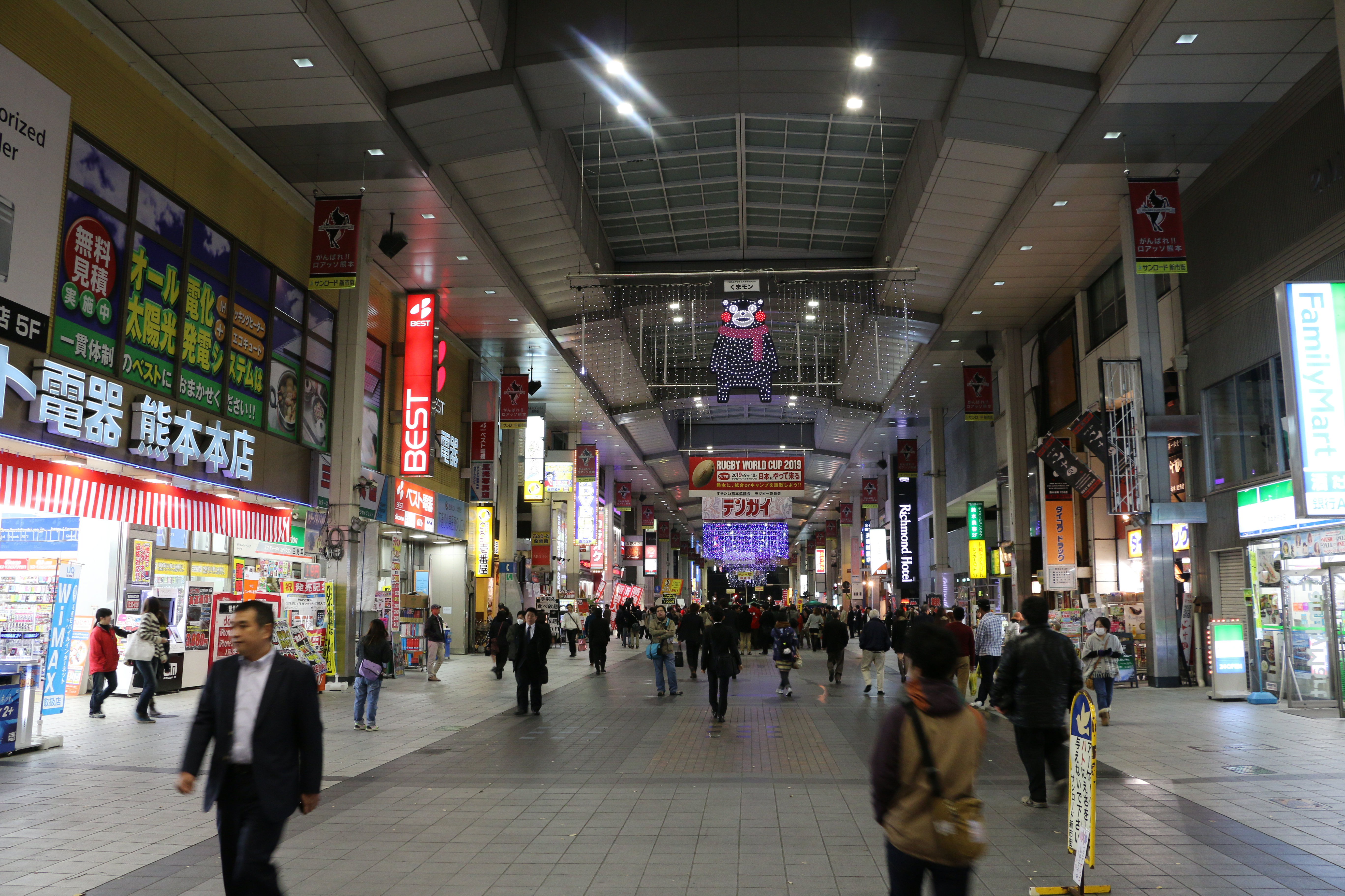 Shimotōri arcade in Kumamoto